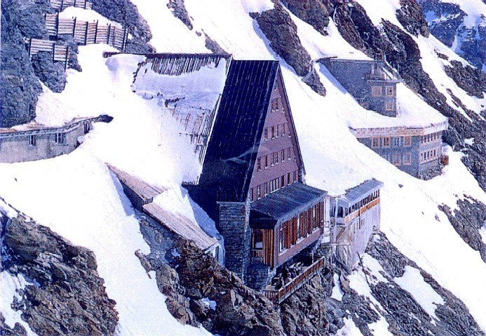 House above the Clouds 1924